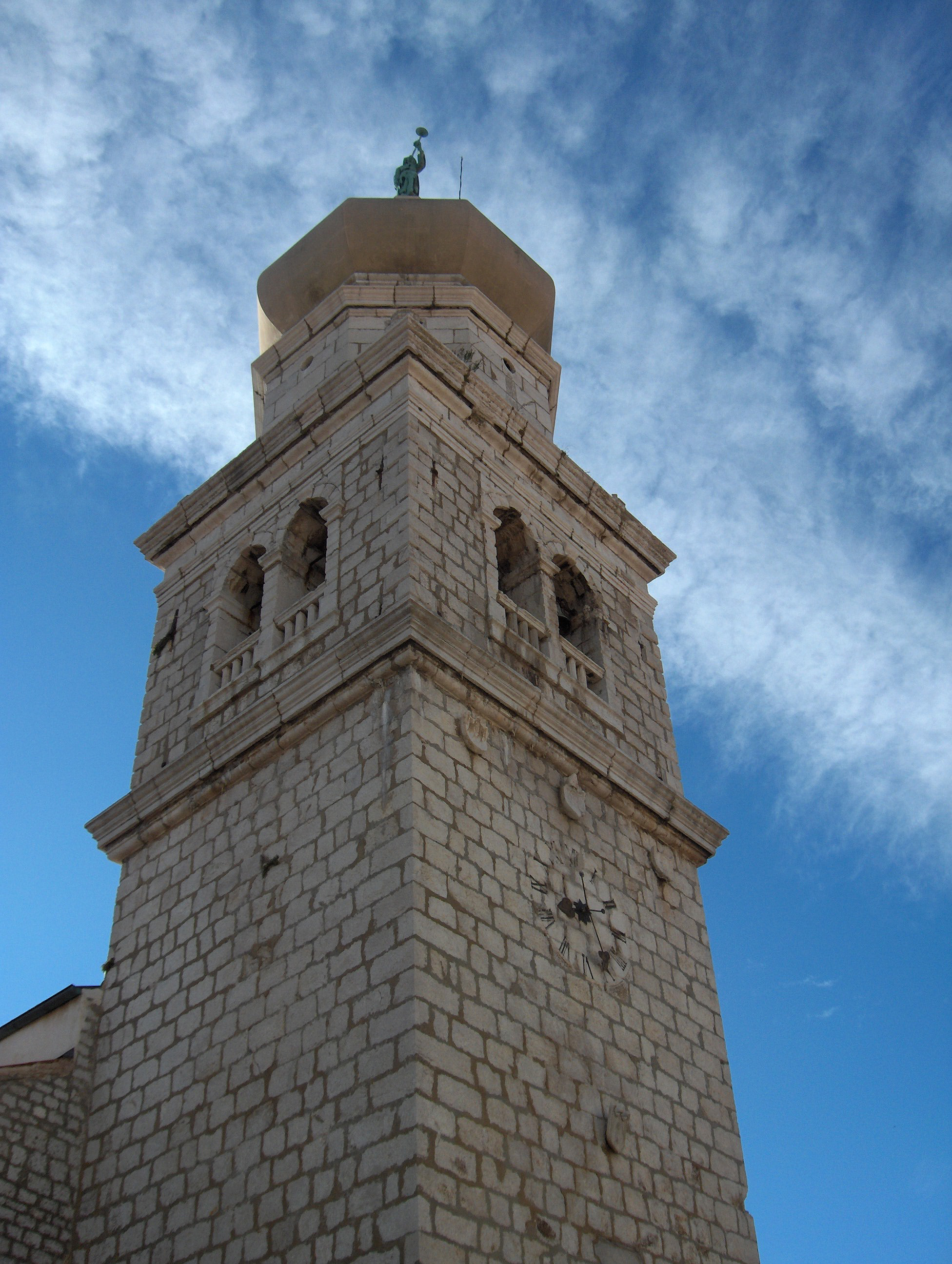 Bell tower; the Church of the Assumption, Krk, on the island of Krk, Croatia